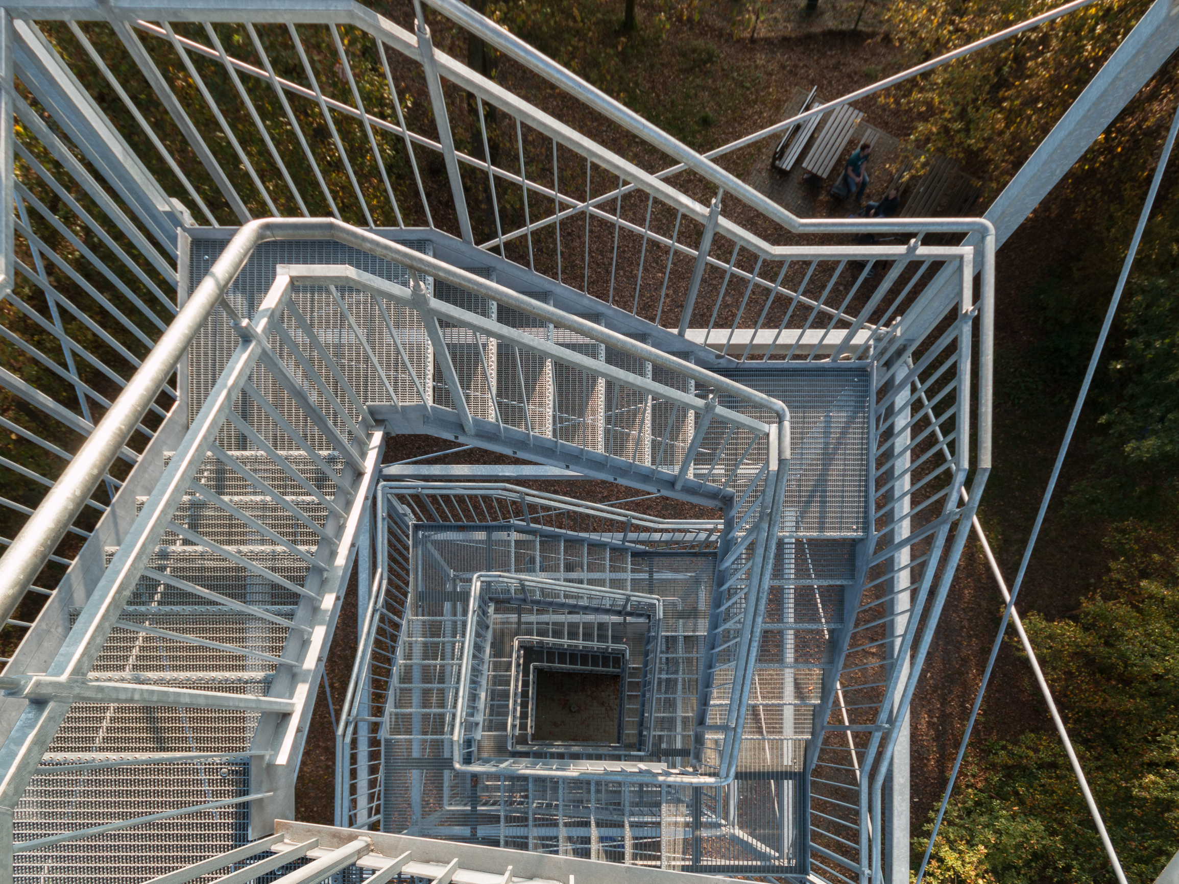 The Ottoturm near Kirchen at the Sieg